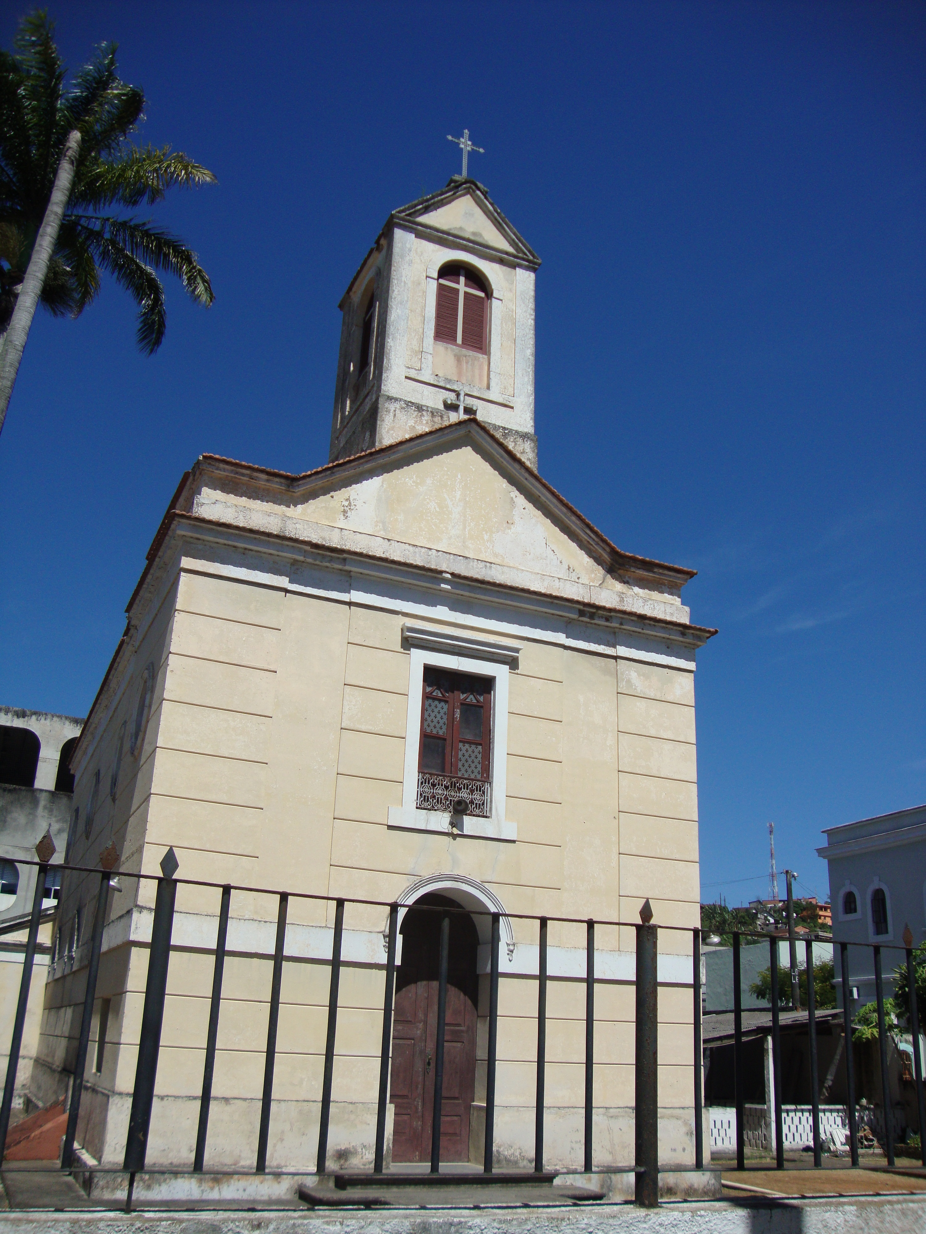 Santa Cruz Church, Mendes city, Rio de Janeiro State, Brazil